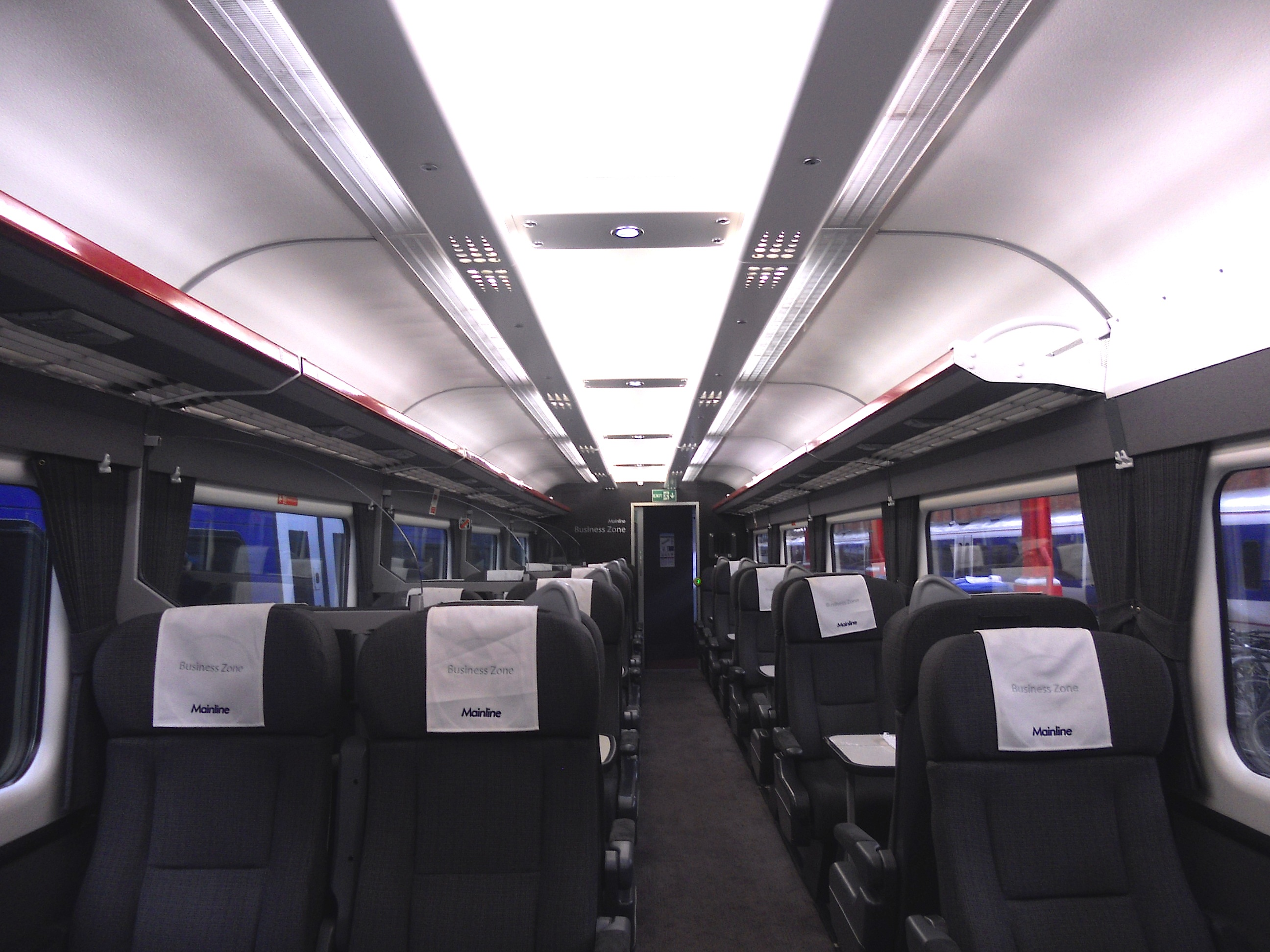 The interior of a Chiltern Railways Mainline refurbished Mark 3A Restaurant First Open